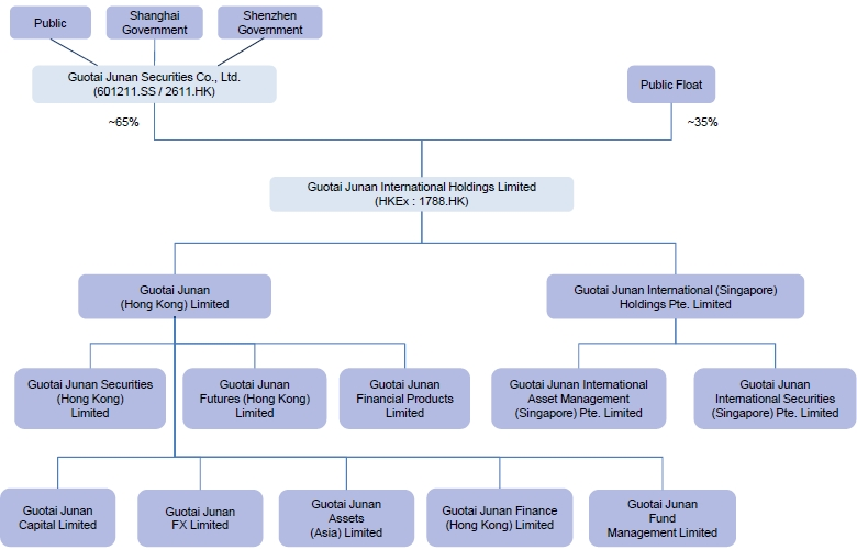 Guotai Junan International Company Structure